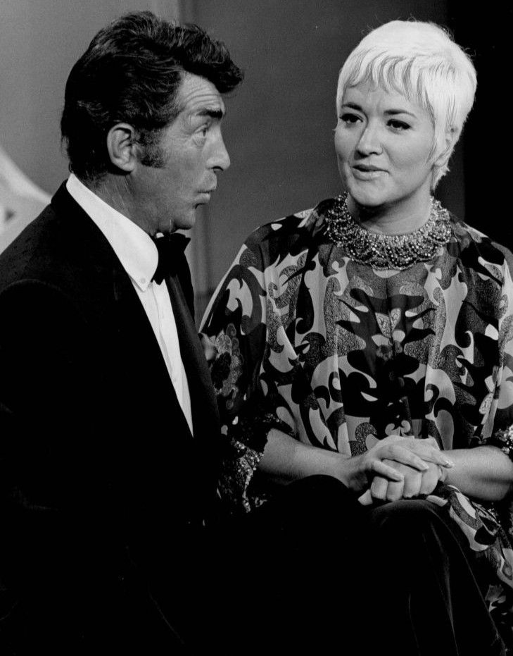 Photo of Dean Martin and Morgana King from the television program The Dean Martin Show.